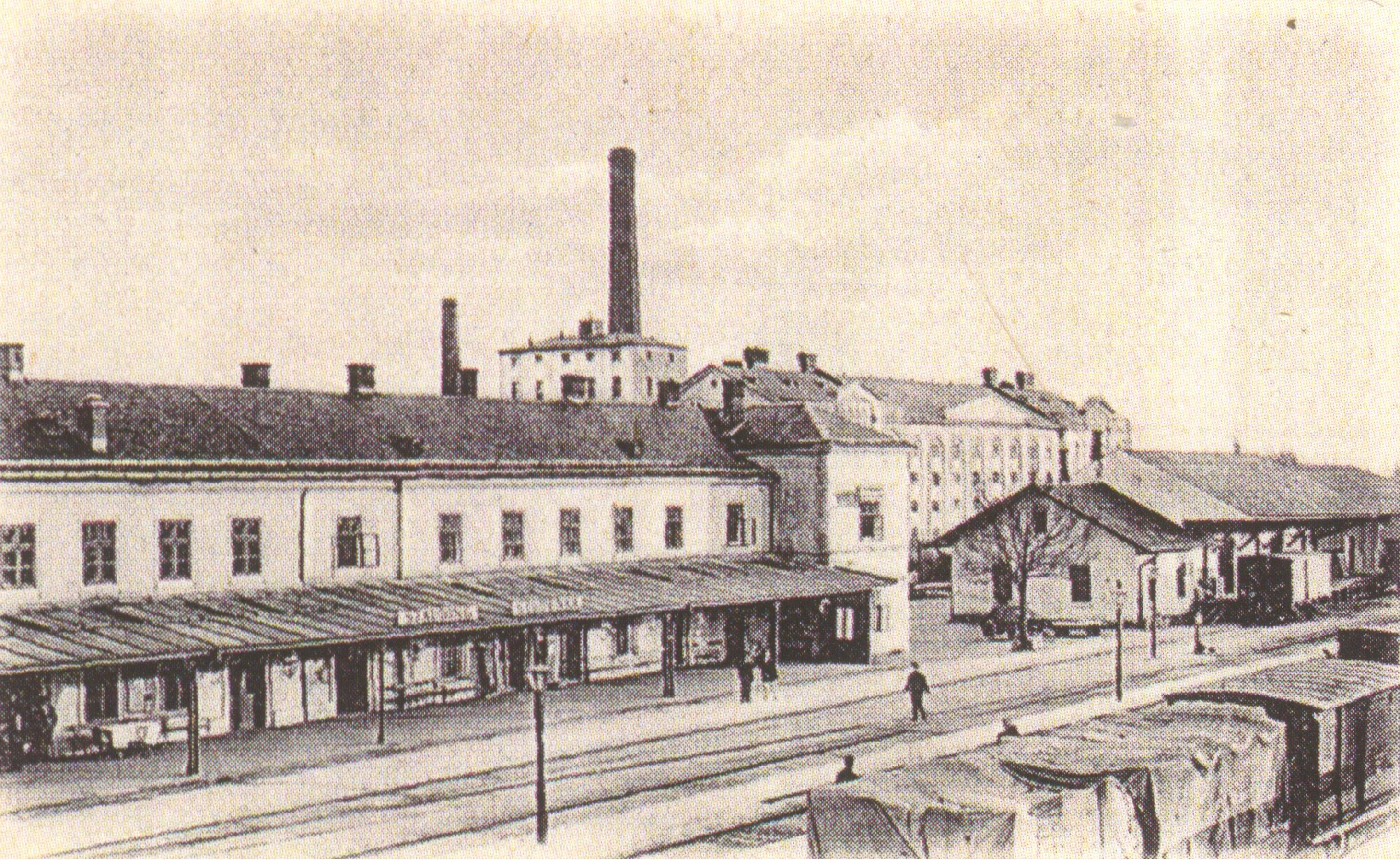 Studénka rail station and Blücher's sugar plant, postcard 1909